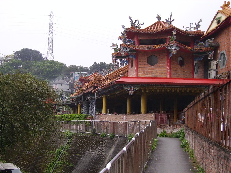 photo by winertai treasure hill,Taipei old temple 2006/02/16 台北